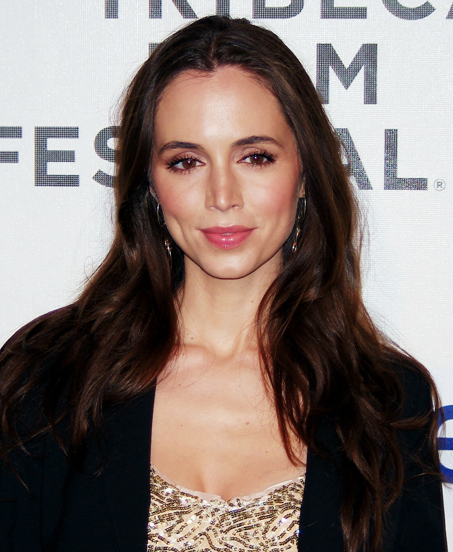 Eliza Dushku at the 2012 Tribeca Film Festival.